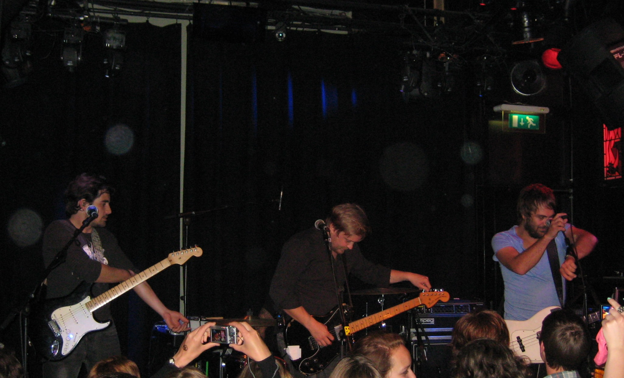 The South-African band "Van Coke Kartel" performing in Amsterdam